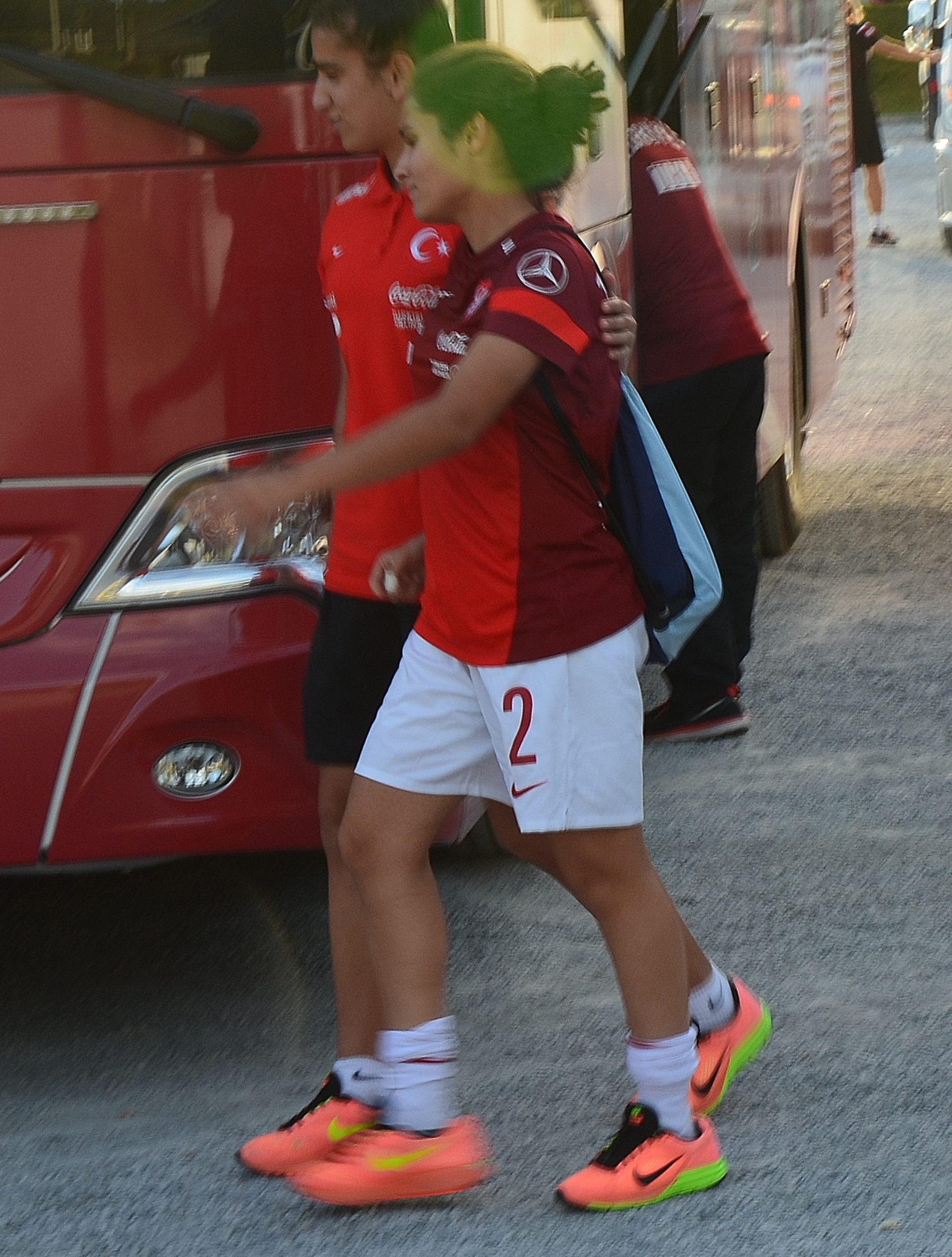 Rabia Civan for Turkey women's U17 on October 20, 2015